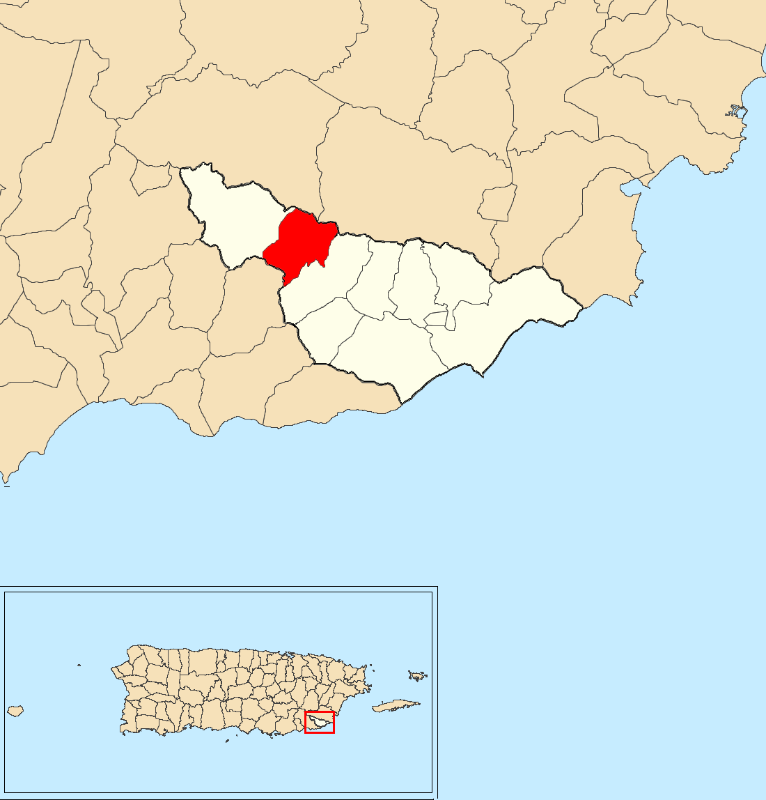 Matuyas Bajo, Maunabo, Puerto Rico locator map